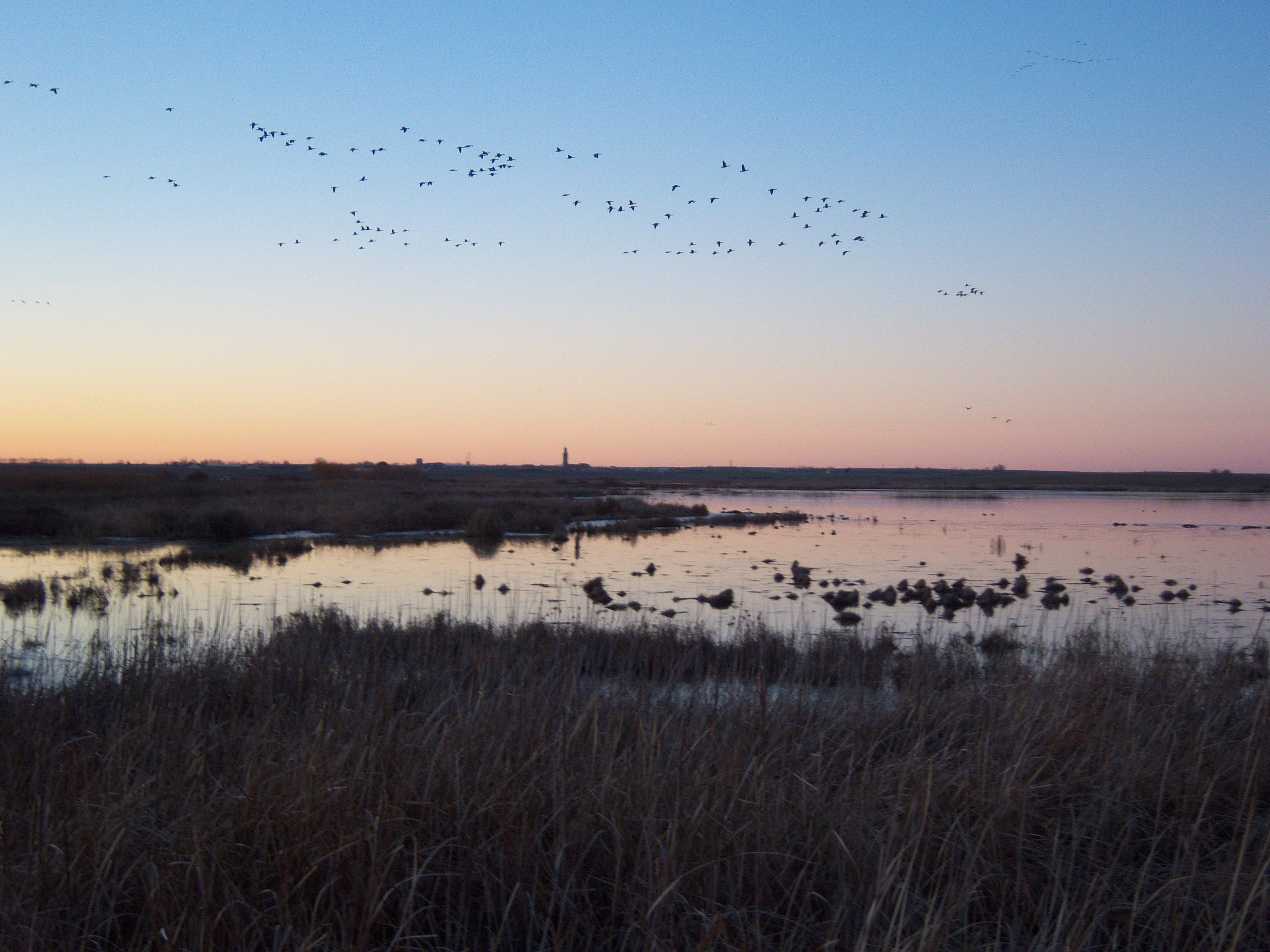 Landing of Anser anser at Laguna de la Nava (Palencia, Spain) for sleeping during the night.